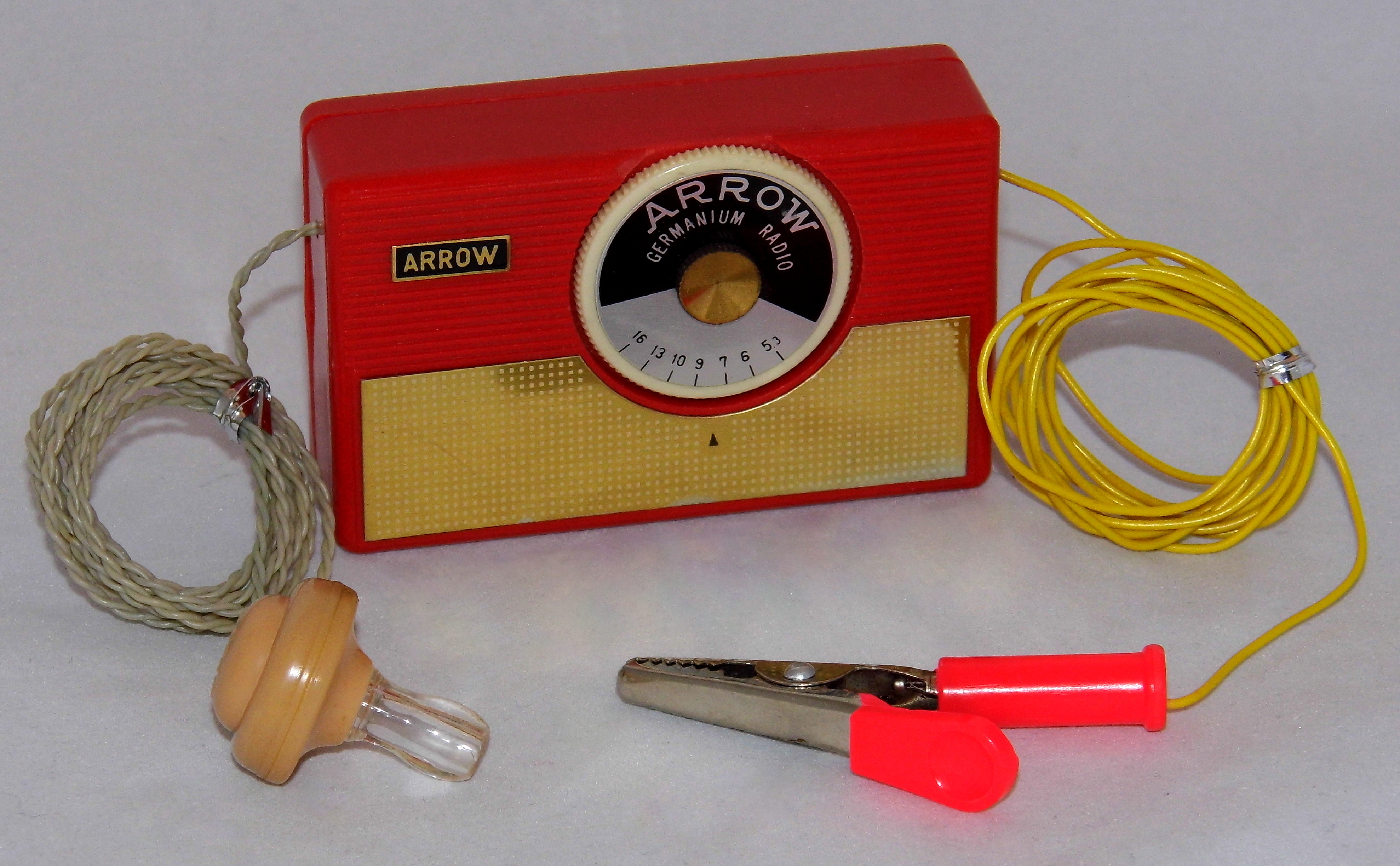 Vintage Arrow germanium crystal radio sold as an educational toy for kids during the 1960s. It comes complete with a piezoelectric earpiece (left) and an antenna wire with a clip on the end to clip to bedsprings for a larger antenna. It is called a "germanium" radio because crystal radios use a germanium diode as a detector.